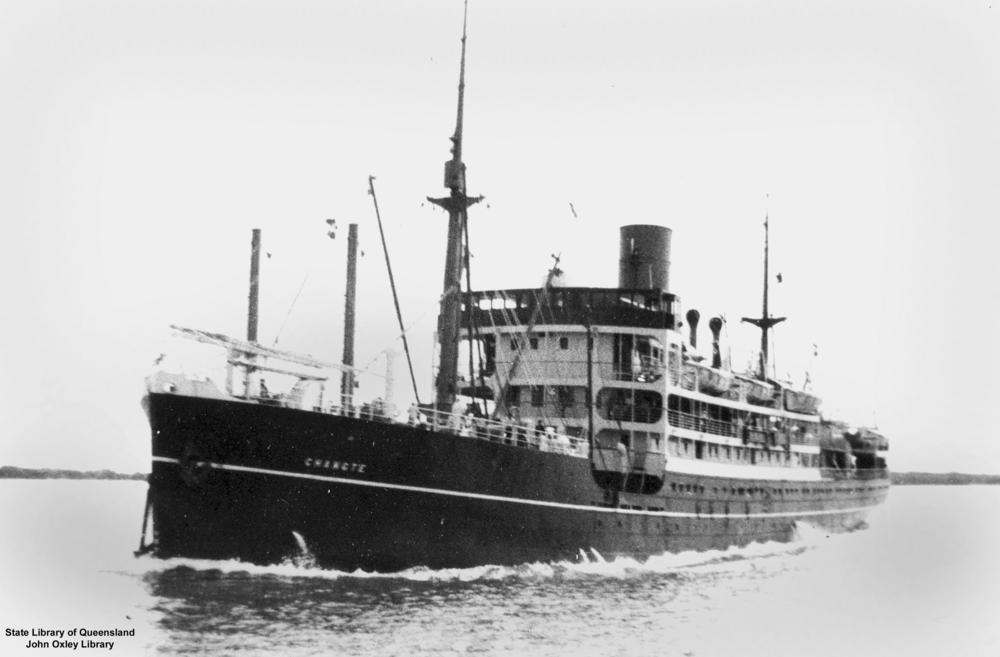 Australian Oriental Line's 4,324 GRT passenger steamship Changte: built in 1925 by Hong Kong & Whampoa Dock Co Ltd and scrapped in Hong Kong in 1961